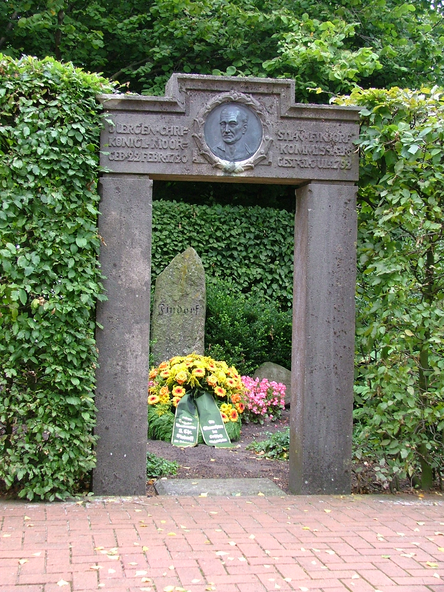 "Findorff-Grabmal" in Iselersheim